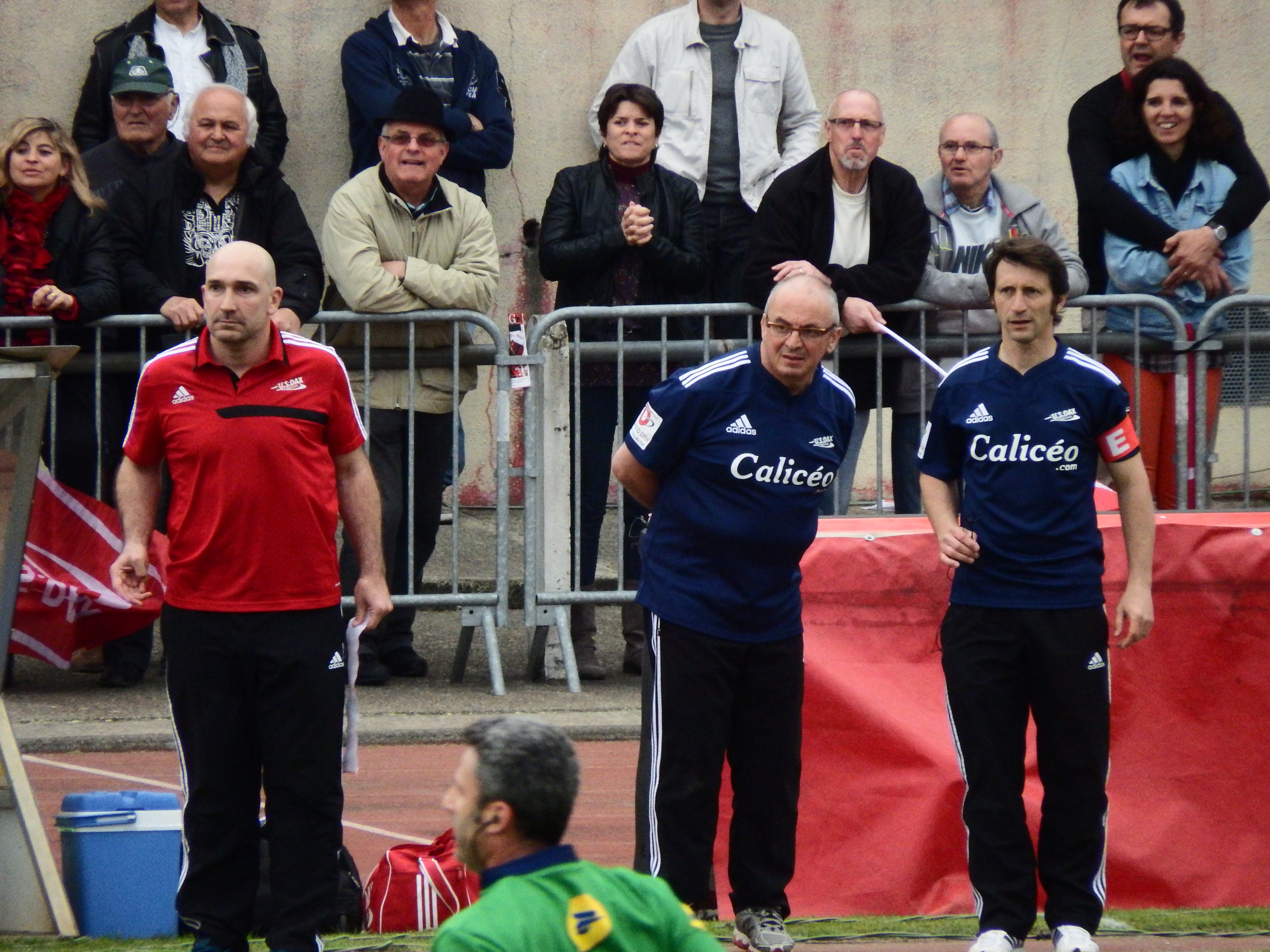 2013–14 Rugby Pro D2 season — 12 April 2014, Stade Maurice Boyau. Match between: US Dax — Lyon OU